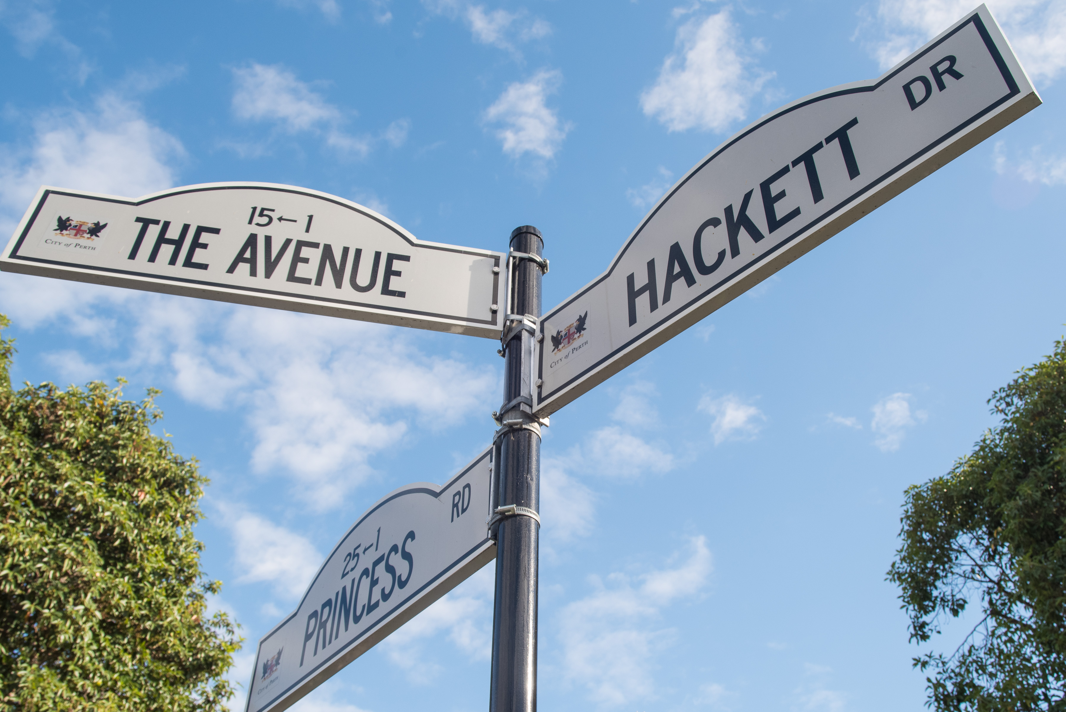 Streets project Museum of Perth